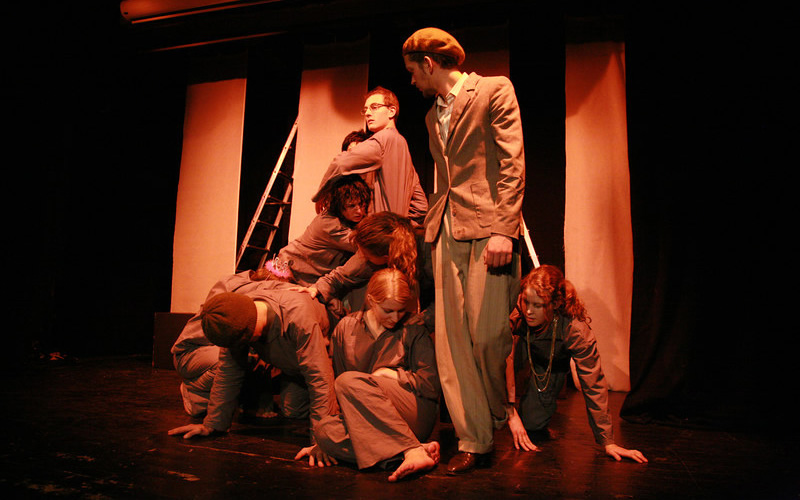 Photo of the theatrical ensemble 'Lunds nya Studentteater' during rehersals for the autumn 2006 play of 'Dante's Divina Commedia'.